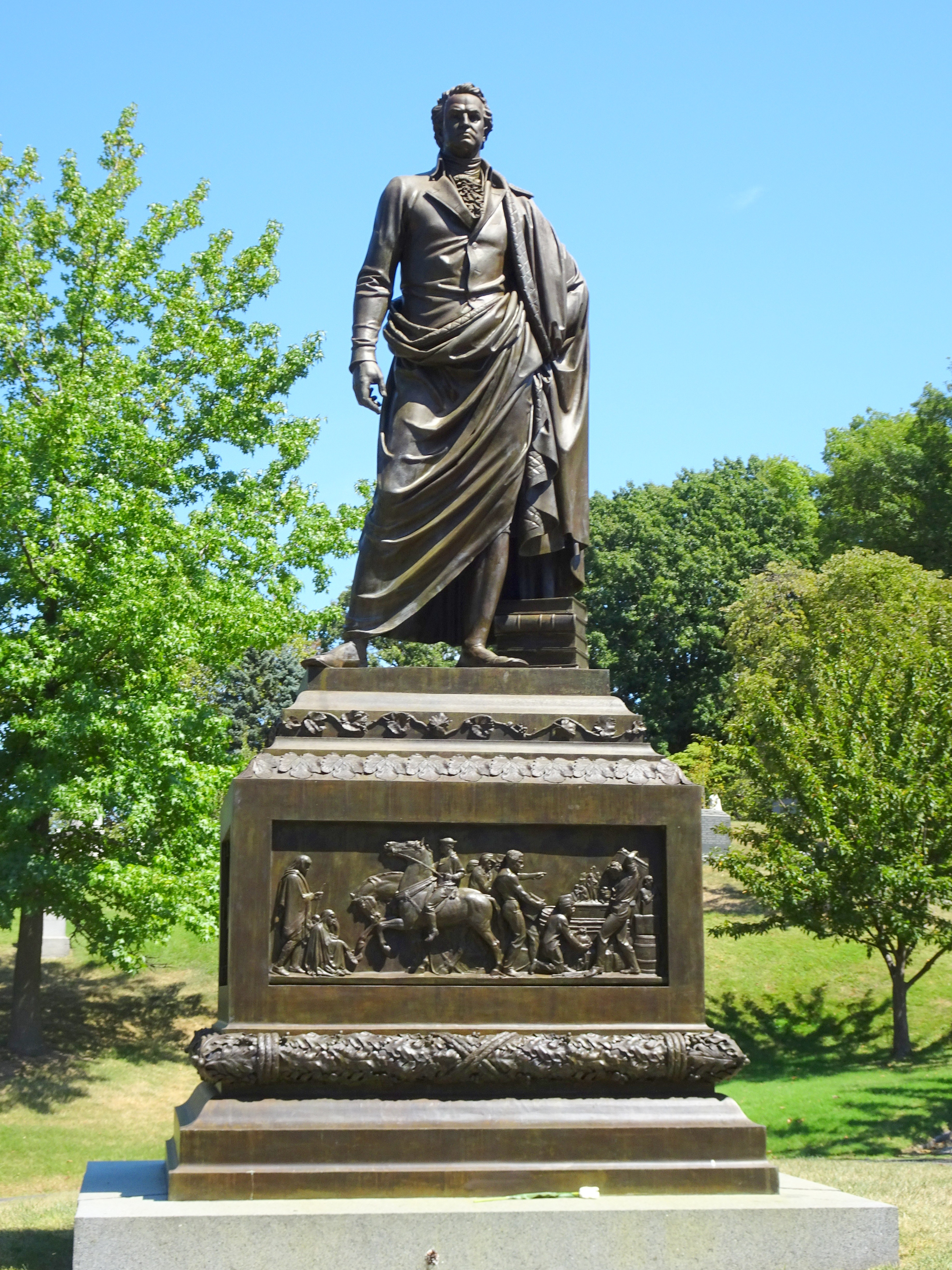 Looking east at statue on a sunny midday